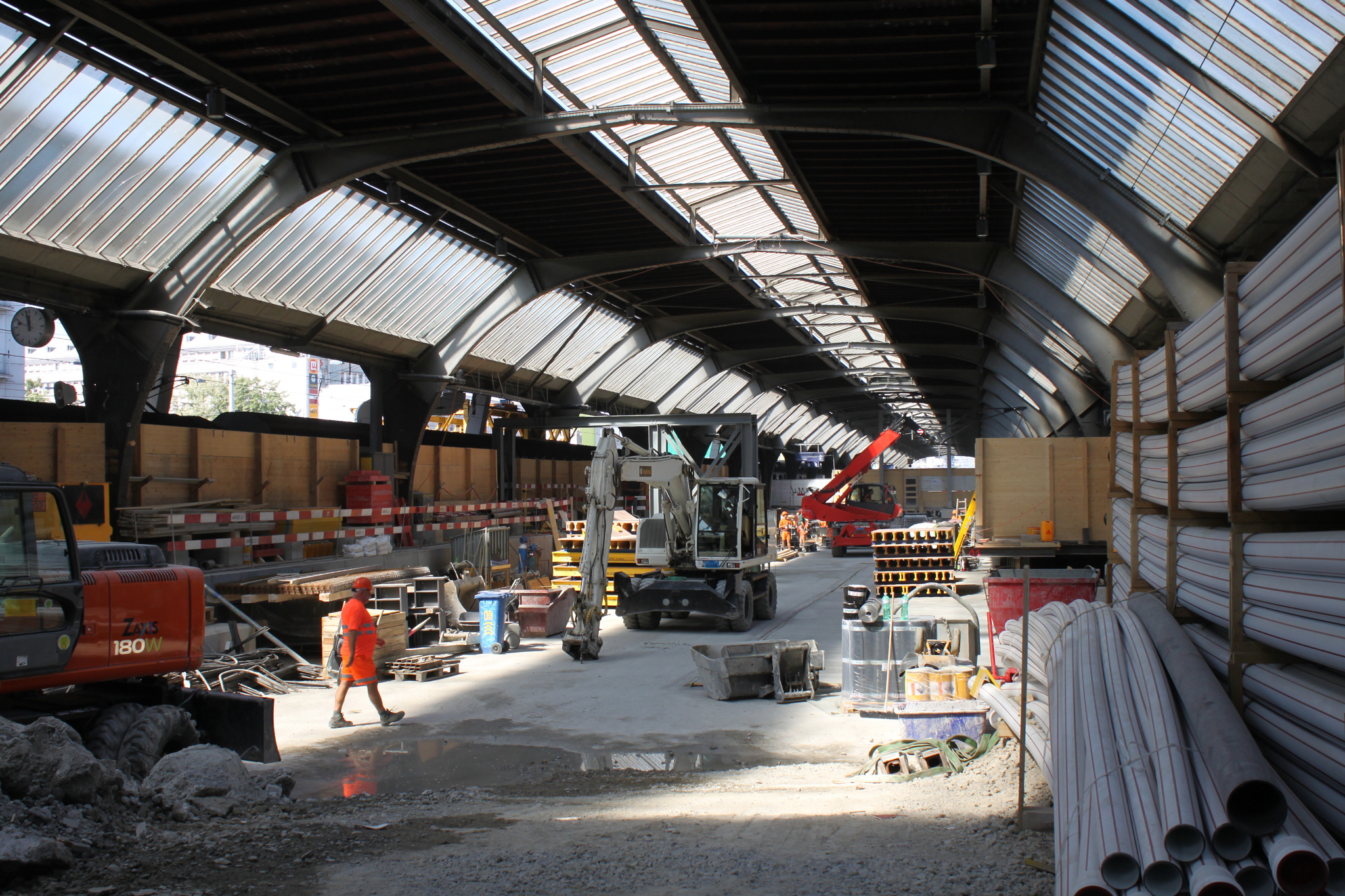 Construction works at Zürich main station.